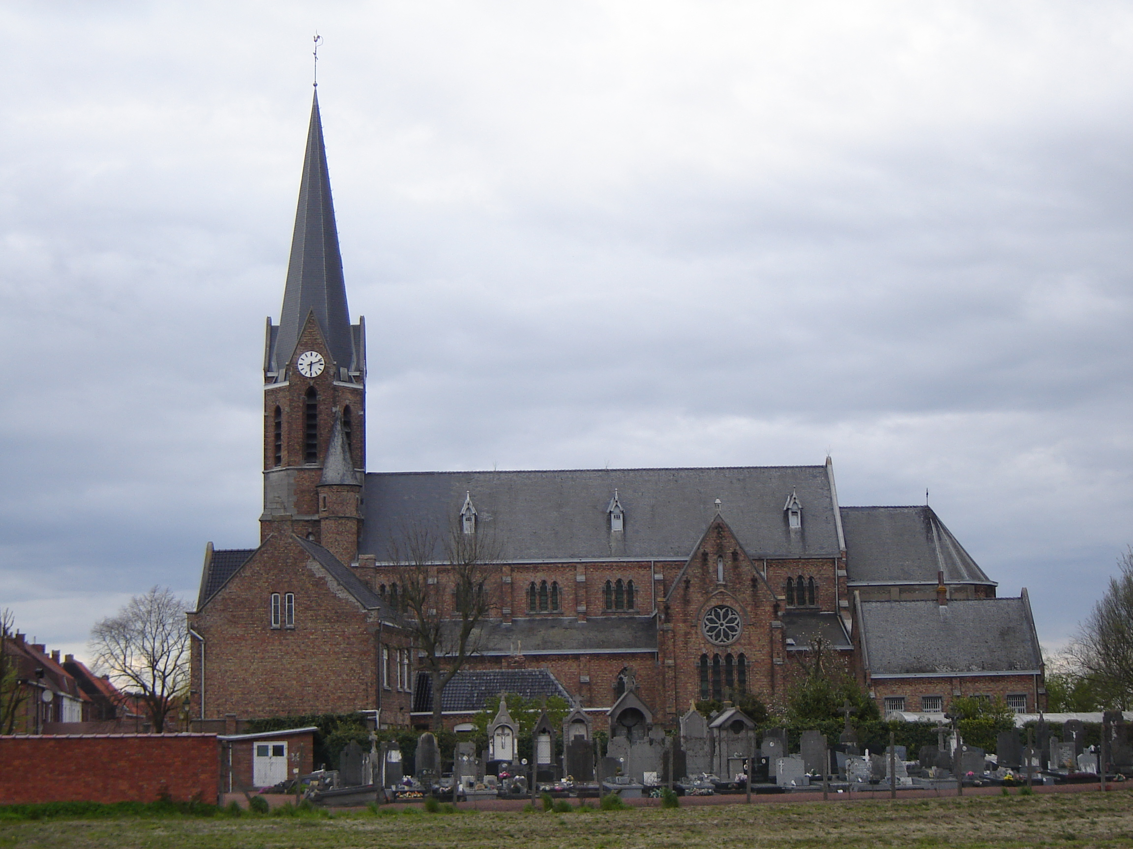 Church of Saint Eligius in Ten Brielen. Ten Brielen, Comines, Comines-Warneton, Hainaut, Belgium.